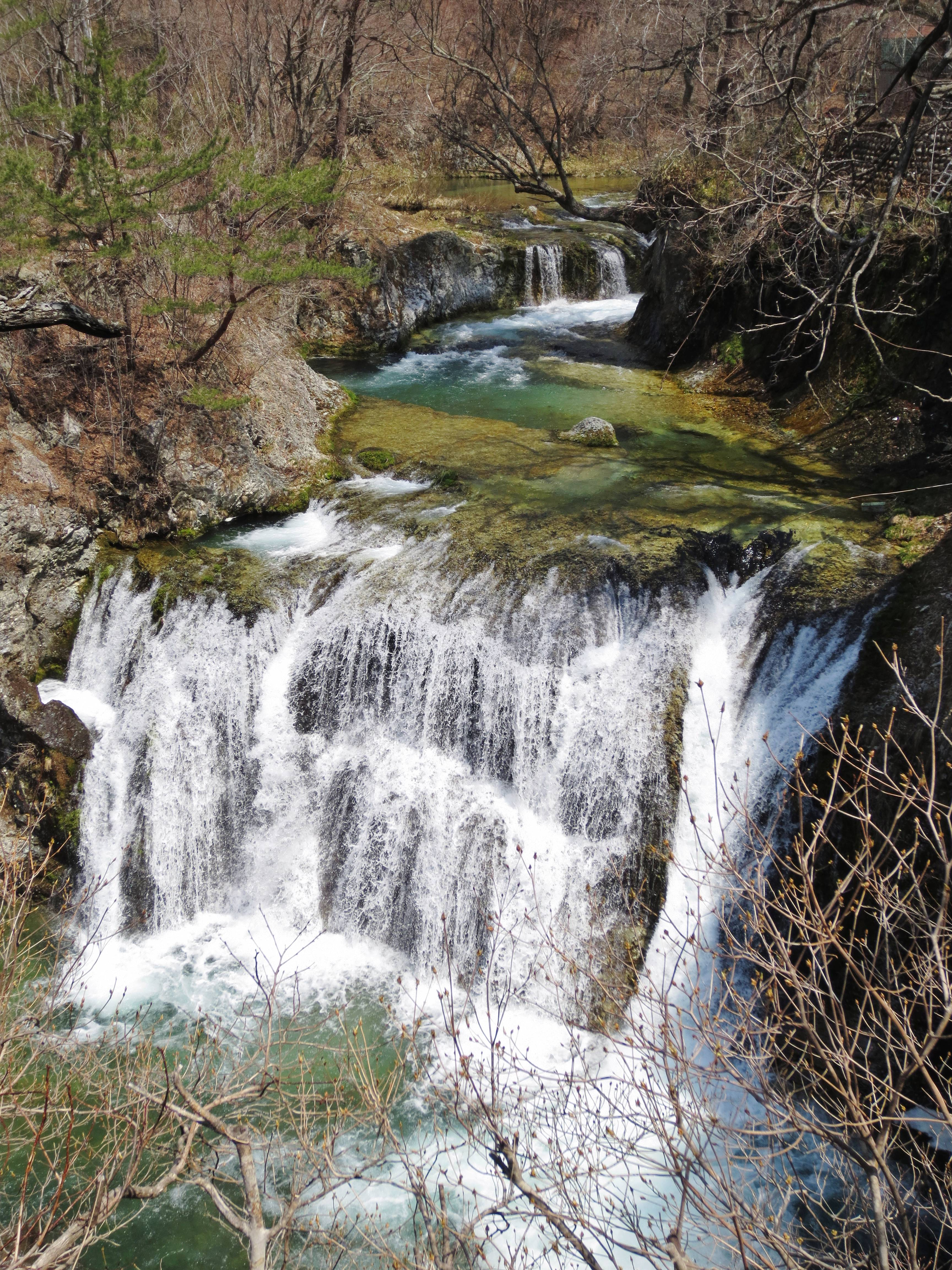 Ojika River Fudo Falls.